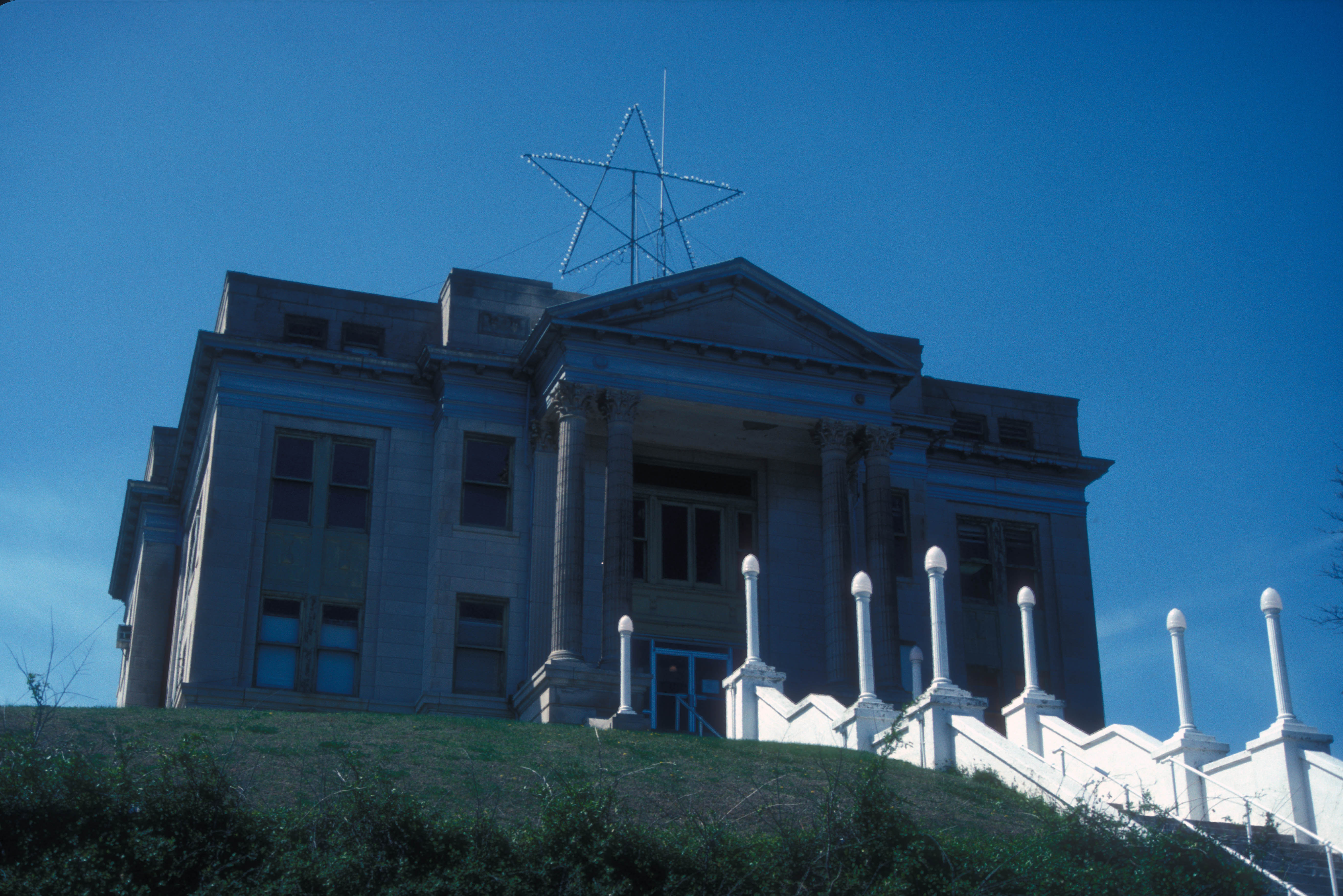 CLASSICAL REVIVAL BUILT FROM EARLY 20TH CENTURY